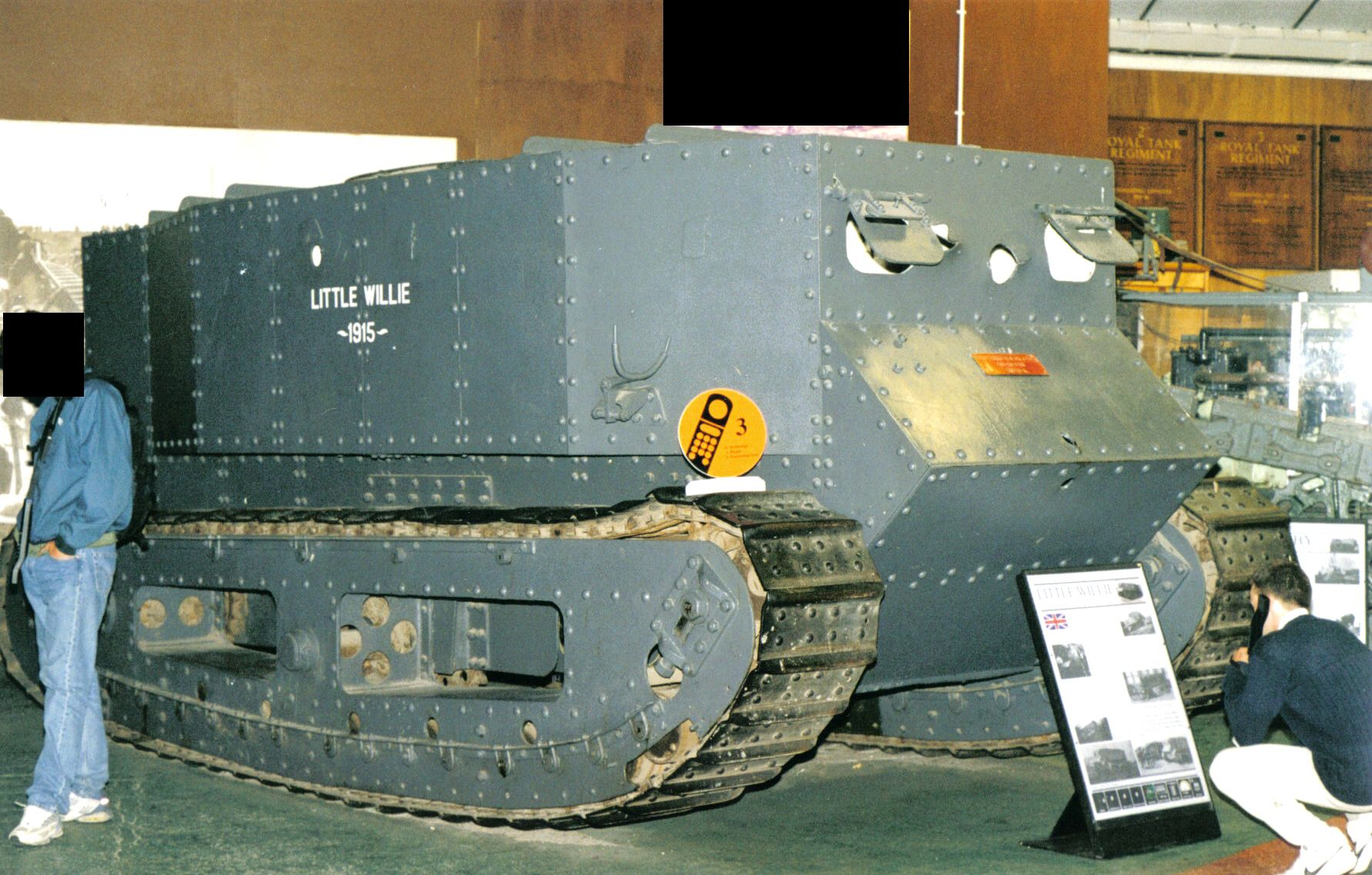 Little Willie at Bovington